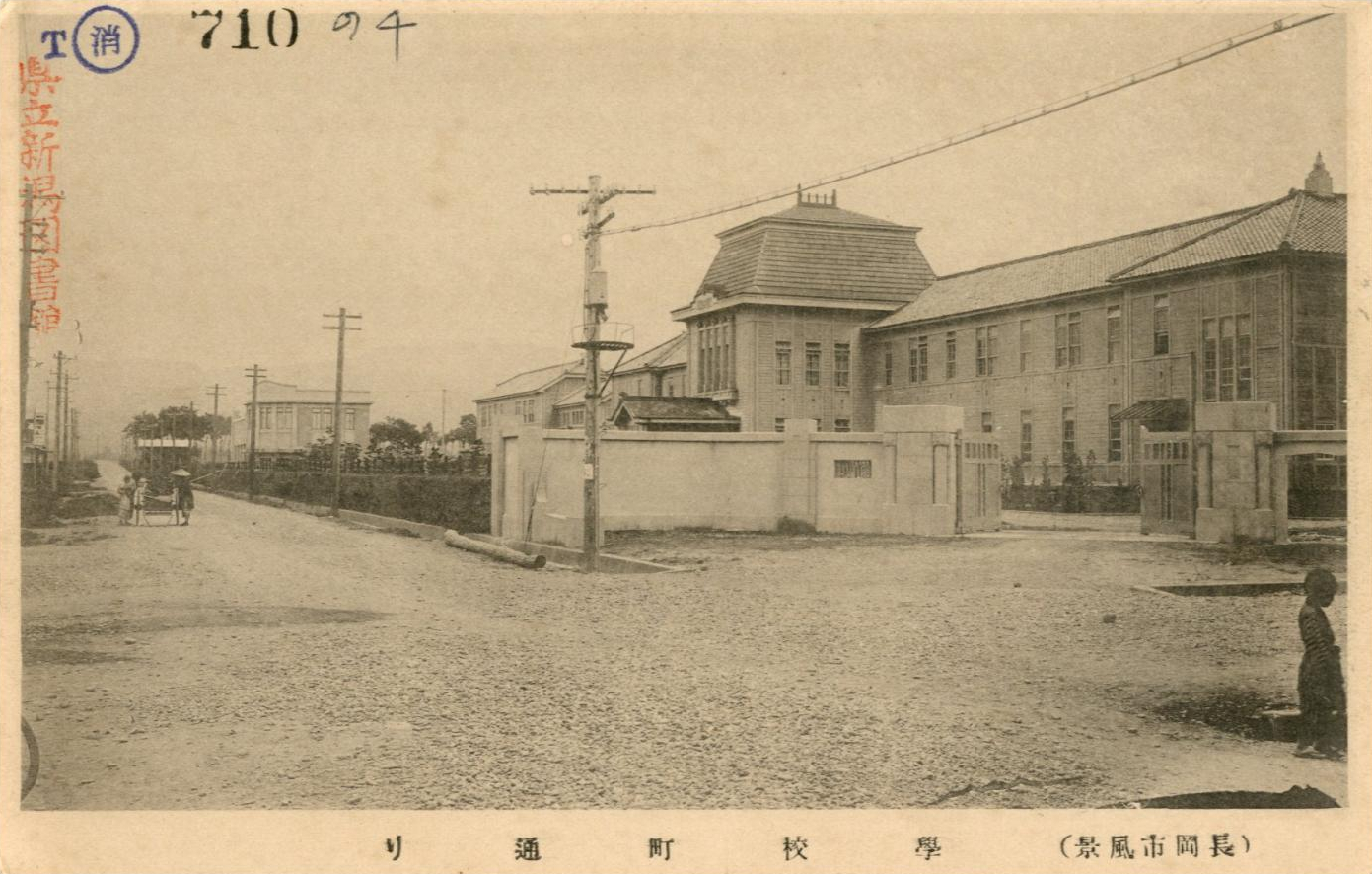 Postcard of Nagaoka Gakkō-chō Street in early Shōwa era